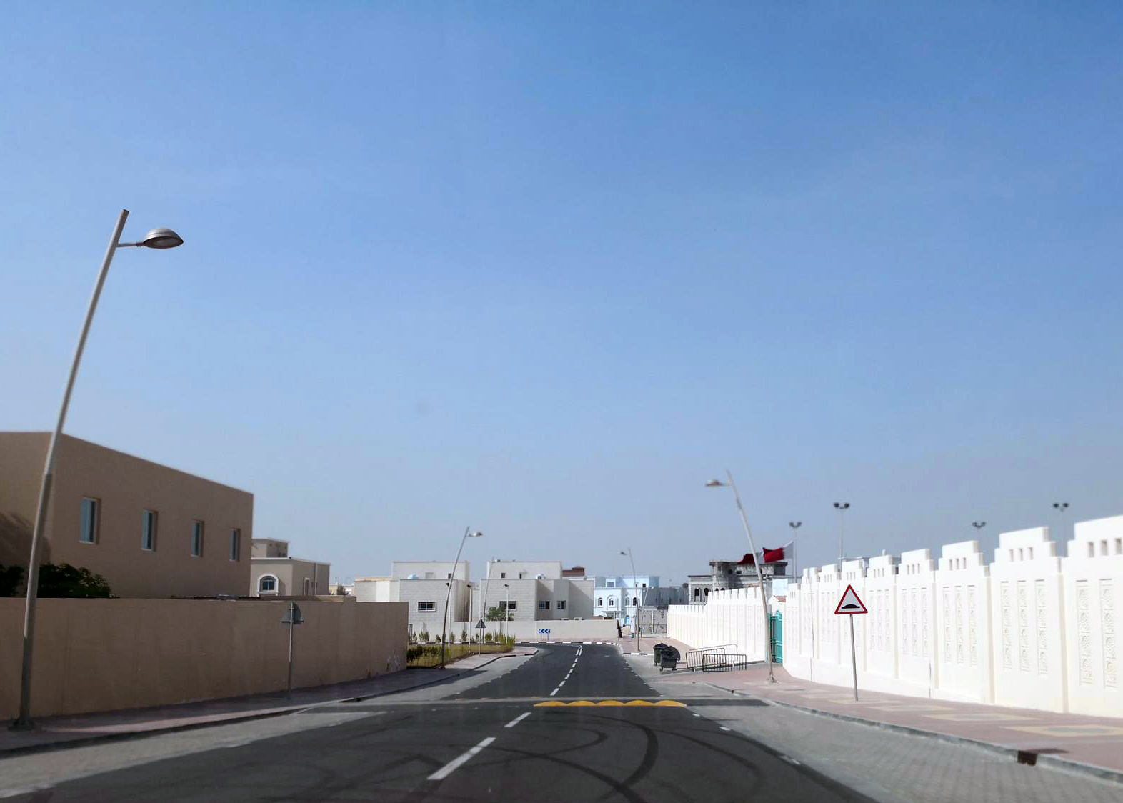 Negyan Al Afja Street inthe Hazm Al Markhiya district of Doha, Qatar. Al Bayan Educational Complex is on the right.